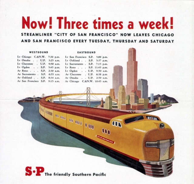 Southern Pacific promoting more shedules for their "City of San Francisco" Streamliners